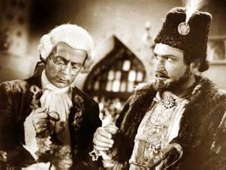 Cadre from a film Fatali khan (1947).